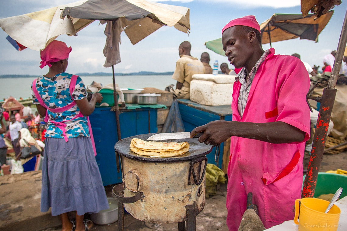 The image shows a "Rolex" merchant frying chapatis. Rolex in Uganda refers to a delicacy prepared in a few minutes , its made by frying eggs and then a chapati is wrapped around the egg and rolled. It is a very delicious treat, that has gained massive popularity over the years. This is an image of "African people at work" from Uganda